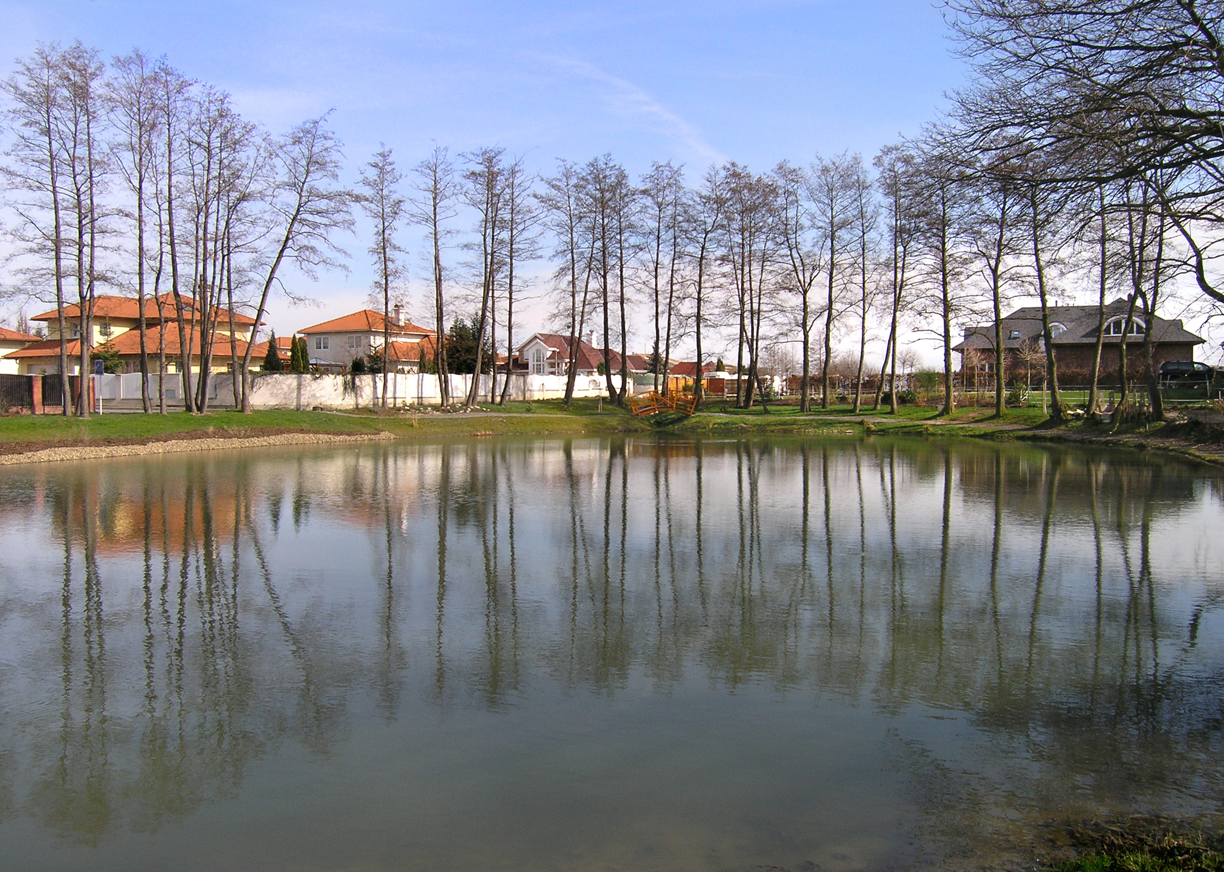 Šmatlík pond at Hrnčíře, Prague